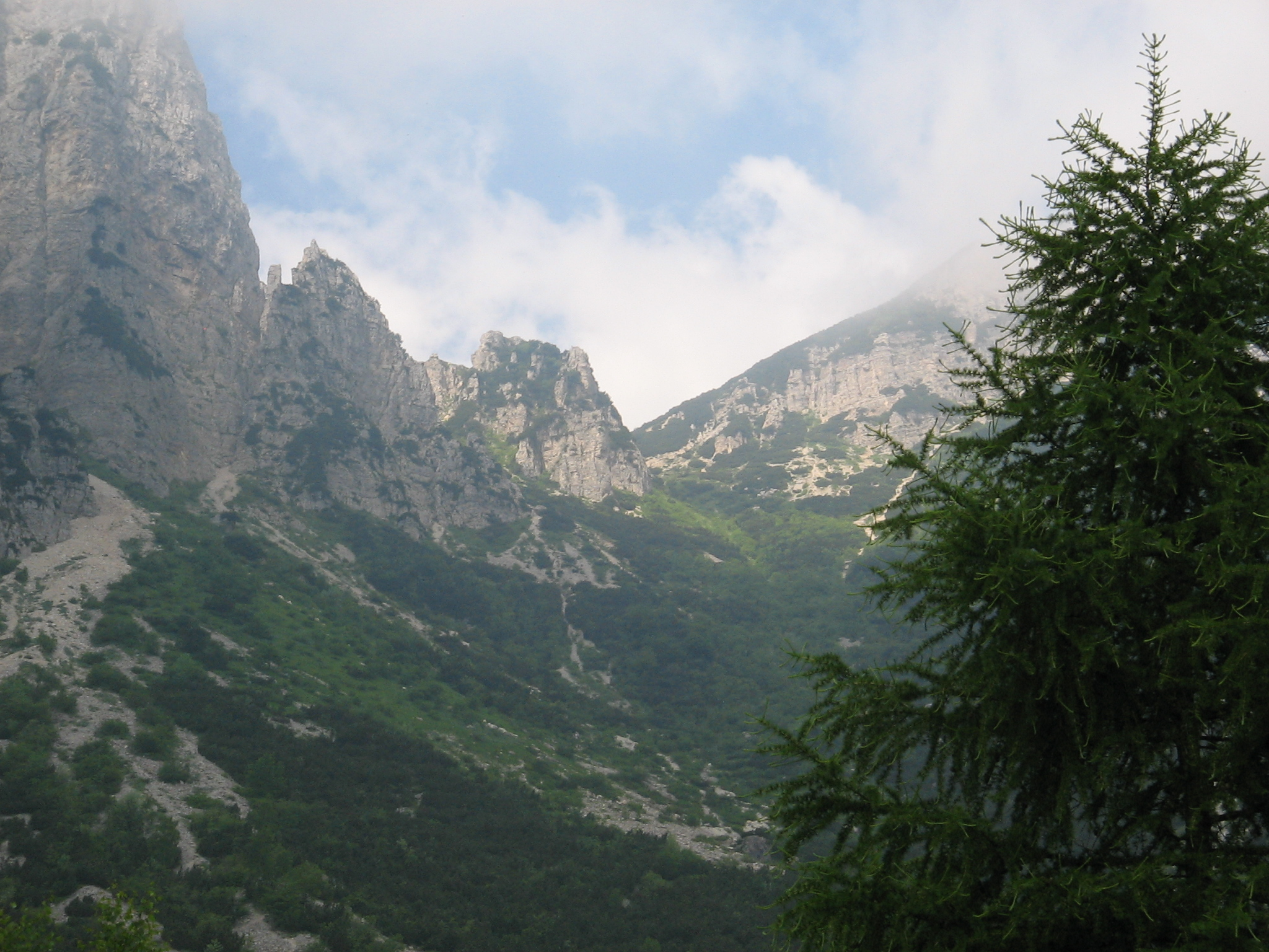 Passo della Lora (Piccole Dolomiti, Italy) seen by Rifugio Battisti